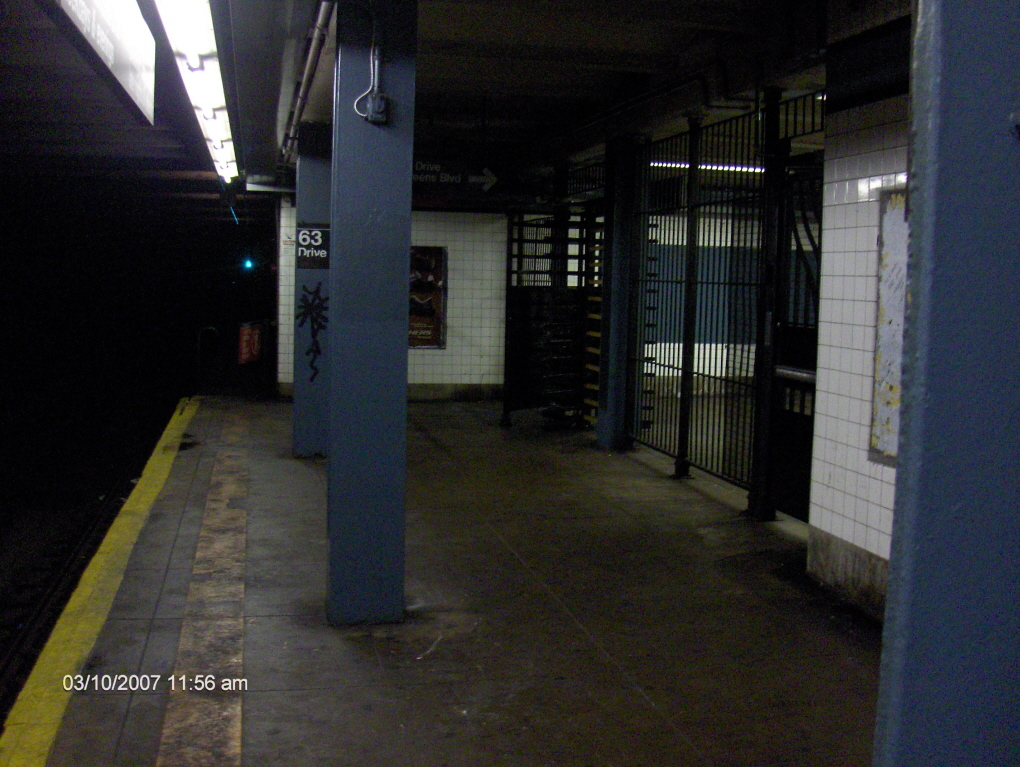 Exit only gate at 63rd Drive station, New York